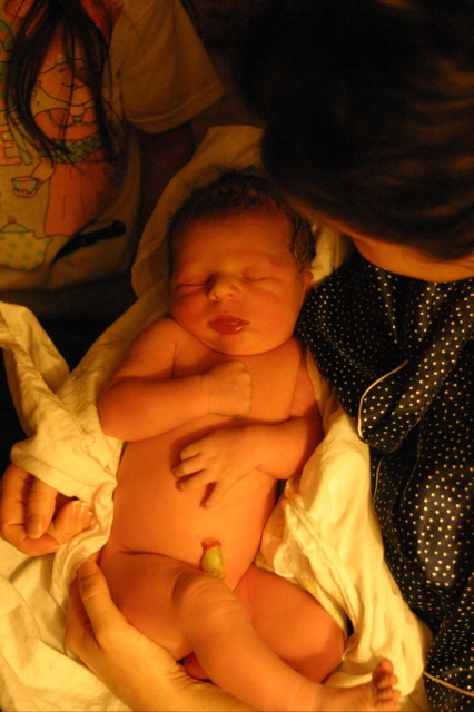 Object: Baby boy two hours after homebirth Source: self Photographer: Nils Fretwurst Date: December 2003